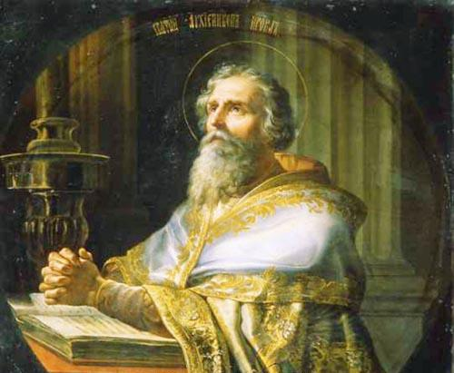 Saint Proclus, Archbishop of Constantinople by Pyotr Mikhailovich Shamshin (1811 -1895), Russia , 1847 (St. Petersburg, State Russian Museum)